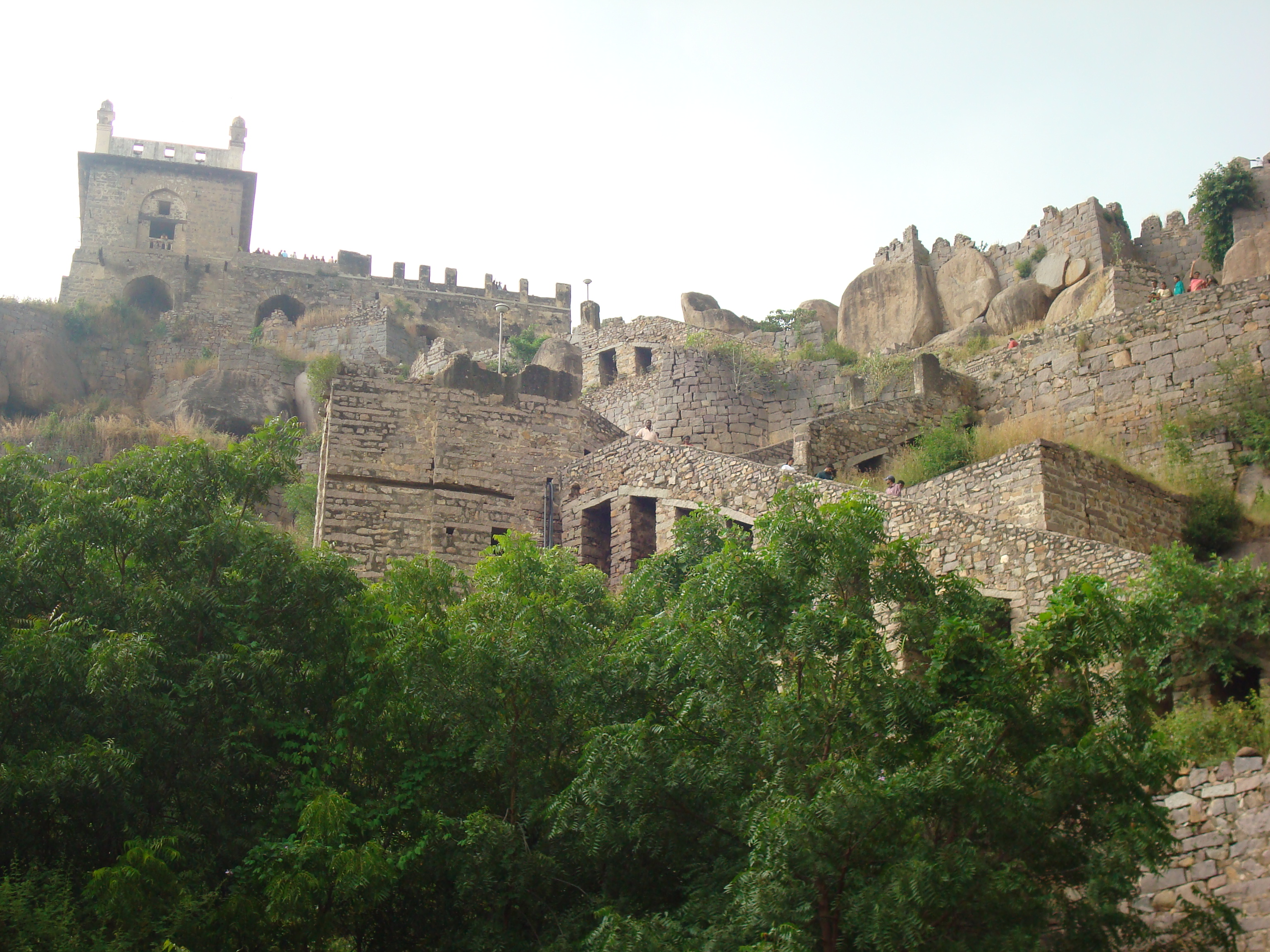 Golconda fort.